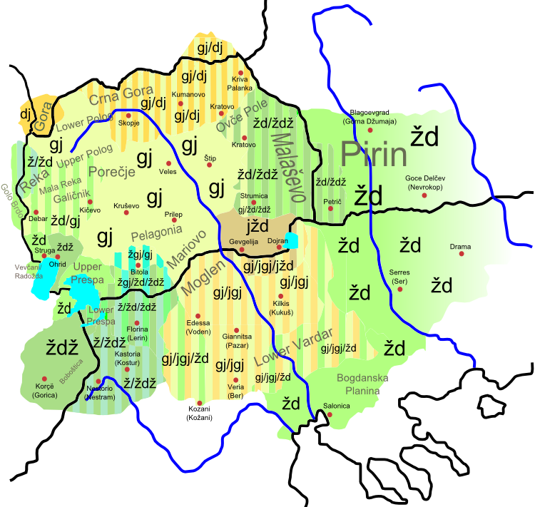 Map showing the distribution of the Macedonian language